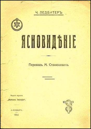 Leadbeater's Book Clairvoyance. Cover of the Russian edition.